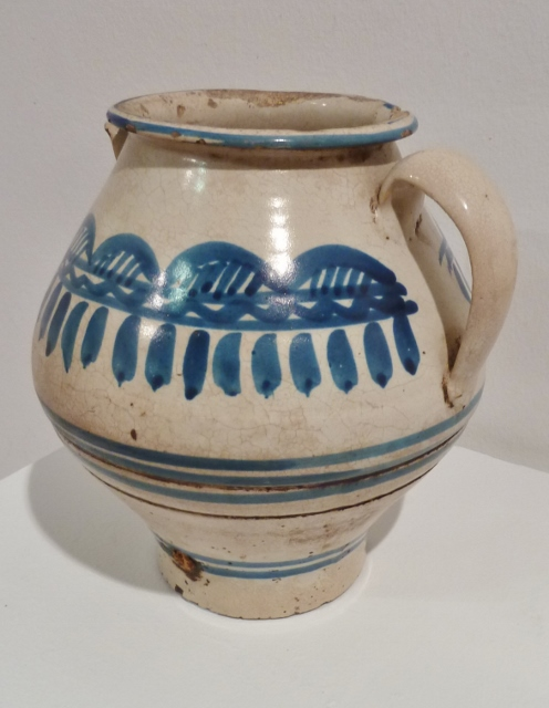 Traditional earthenware (20st century) from Vega de Poja (Siero, Asturias), Spain. Leopoldo Palacio Carús "Poldo" collectión.